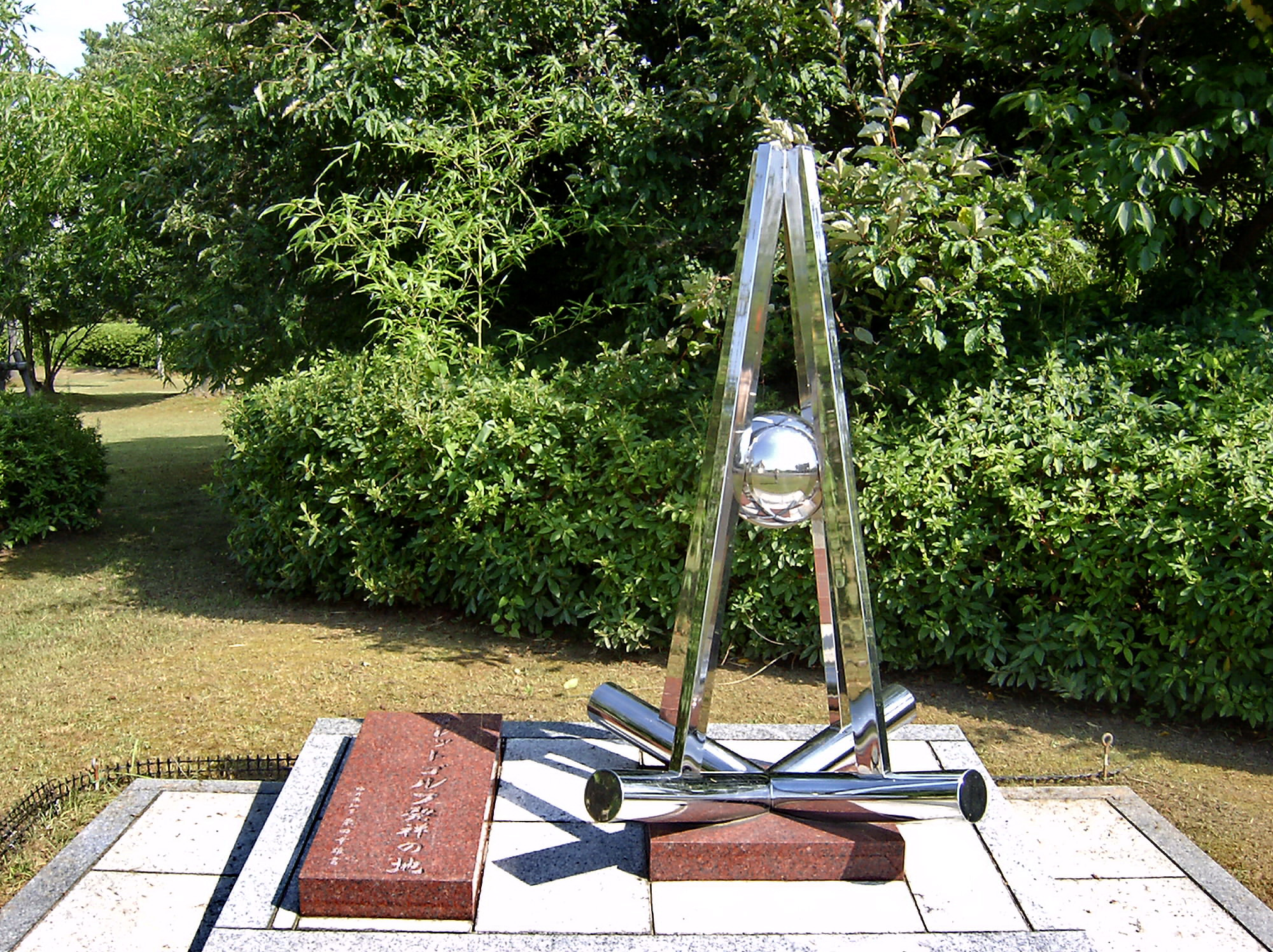 Mallet golf birthplace monument